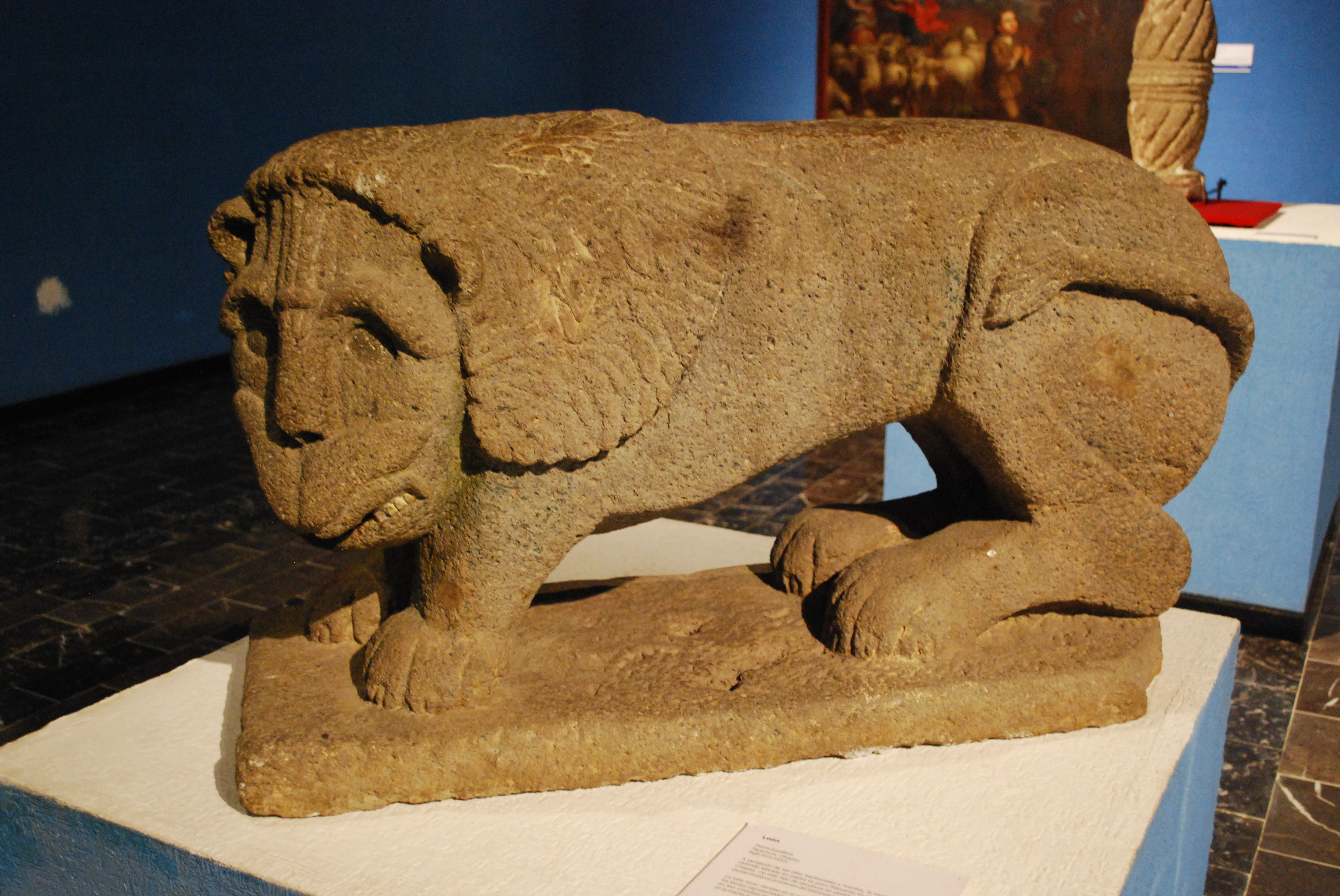 Example of a rare non religious sculpture from early colonial Chiapas (Soconusco region) on display at the Regional Museum in Tuxtla Gutierrez, Chiapas, Mexico